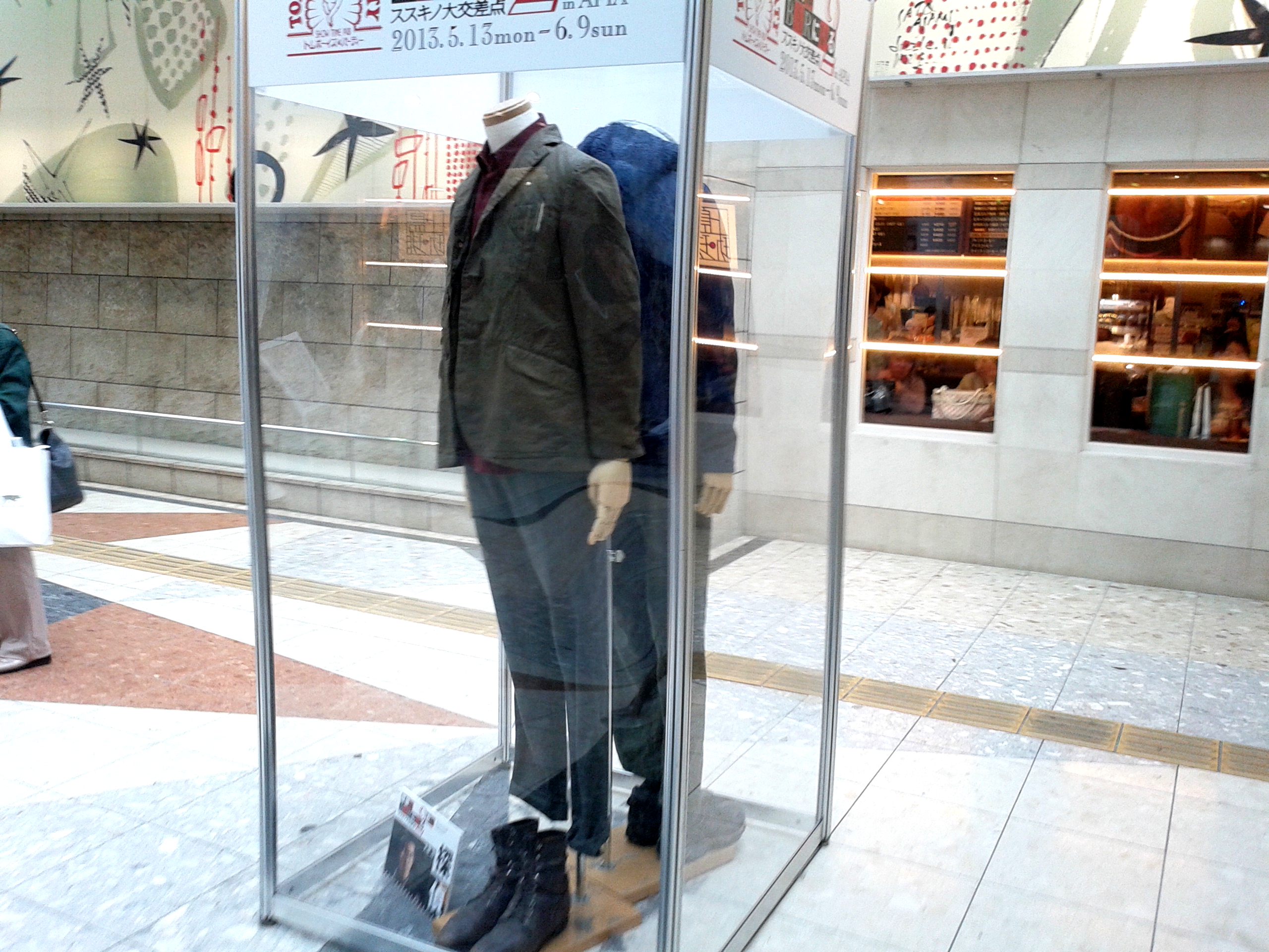 The outfit worn by Yo Oizumi in the film Tantei wa Bar ni Iru 2. On display at Sapporo Station.